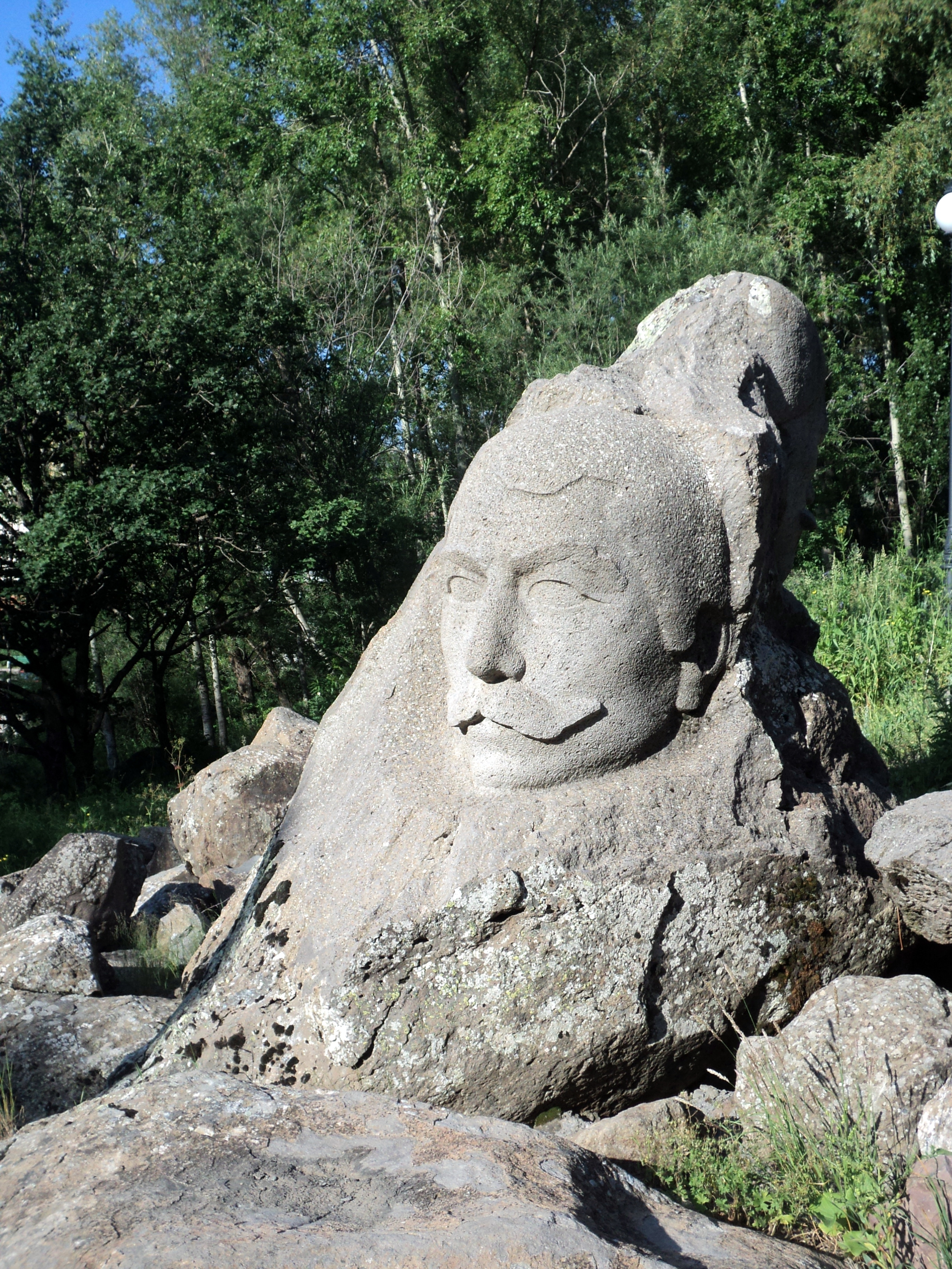 Գևորգ Չաուշ (Գևորգ Չավուշ, Գևորգ Արոյի Ադամյան) (1870 կամ 1871 - 1907) - հայ ազգային ազատագրական շարժման հերոս, ֆիդայի։ Քանդակը գտնվում է Ջերմուկ քաղաքում, հեղինակ` Հովհաննես Մուրադյան